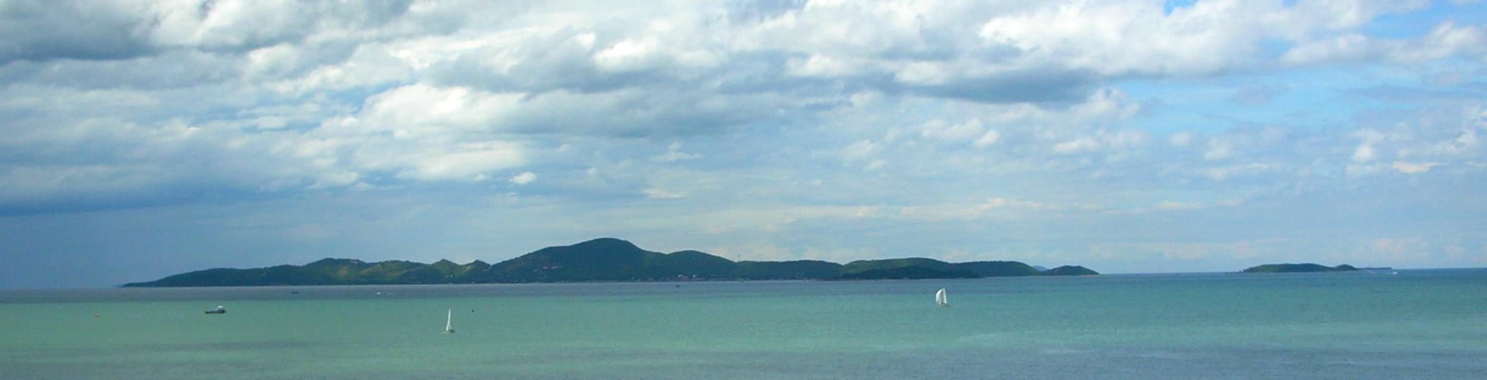 Island of Ko Lan